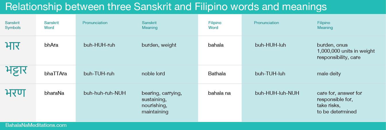 Sanskrit words related to Filipino words of bahala, Bathala and phrasing of bahala na.